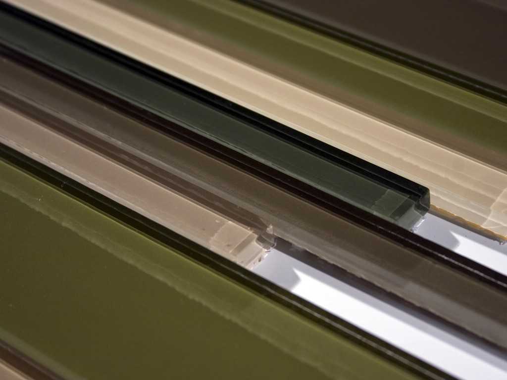 Glass Tile Fountainebleau Crystal Glass Random Interlock in Beige Brown Sage GreenPolish Glass Tile by